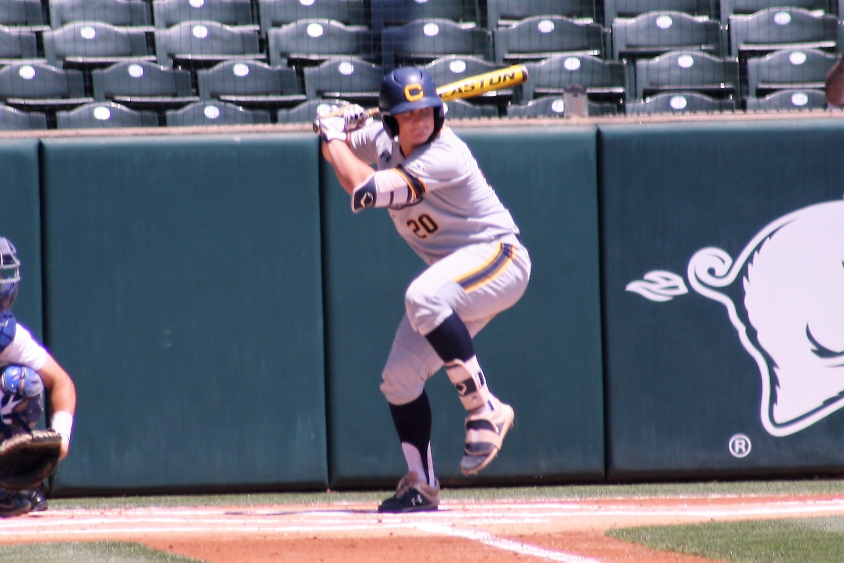 University of California Golden Bears 1B Andrew Vaughn bats against Central Connecticut State University at Baum-Walker Stadium, host of the Fayetteville Regional